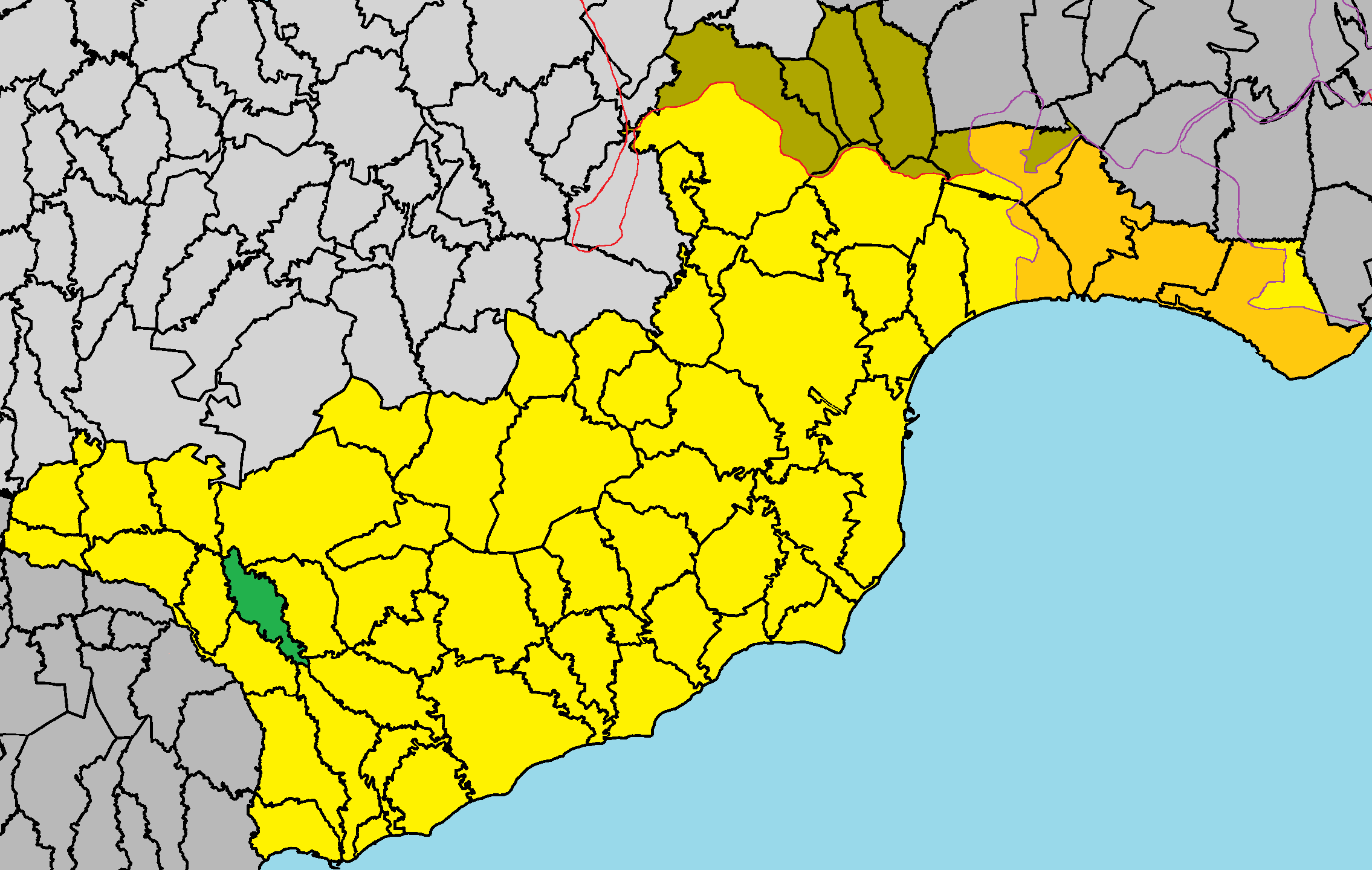 Vavla in Larnaca District.